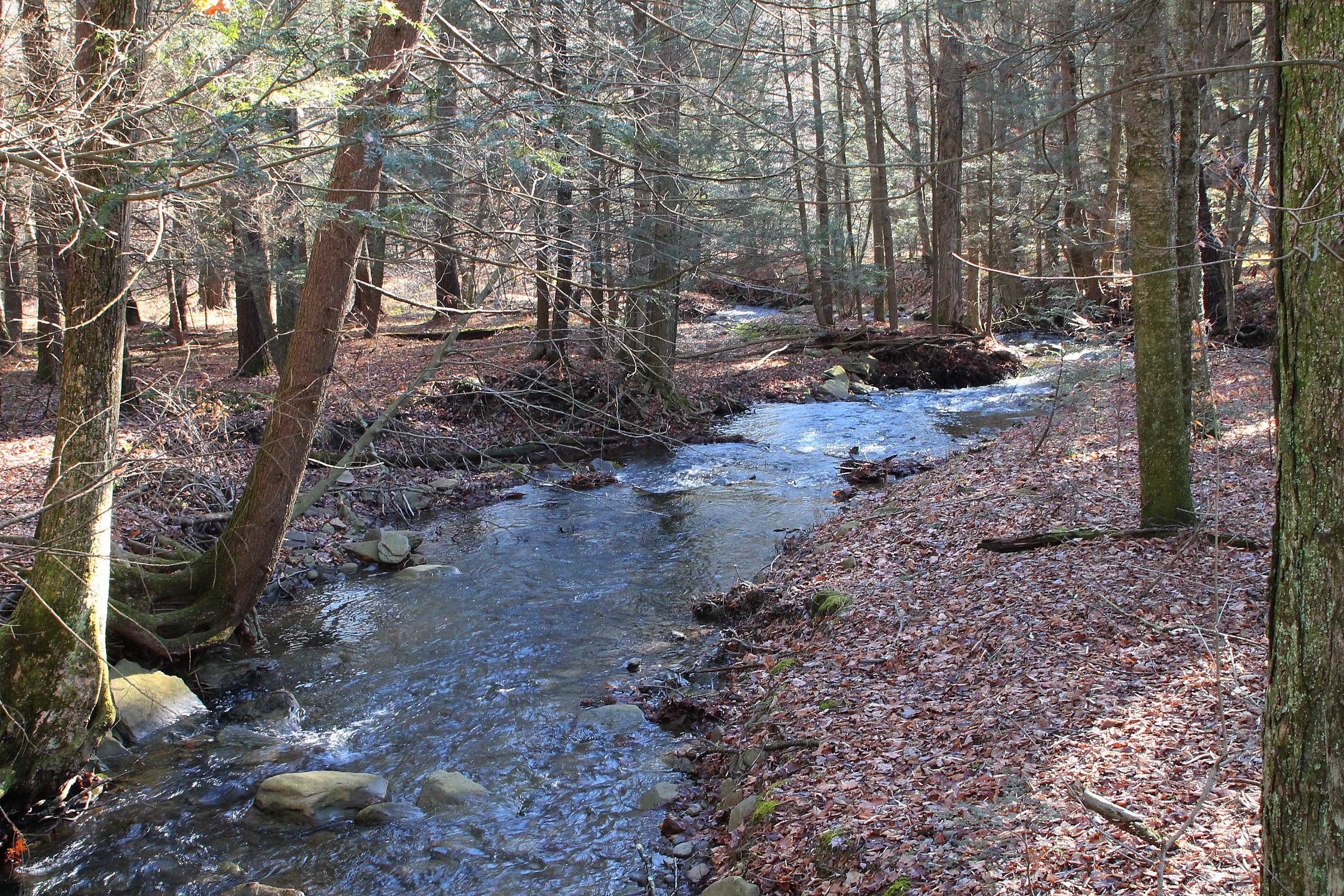 Lick Branch, a headwater tributary of Huntington Creek, looking downstream in its lower reaches